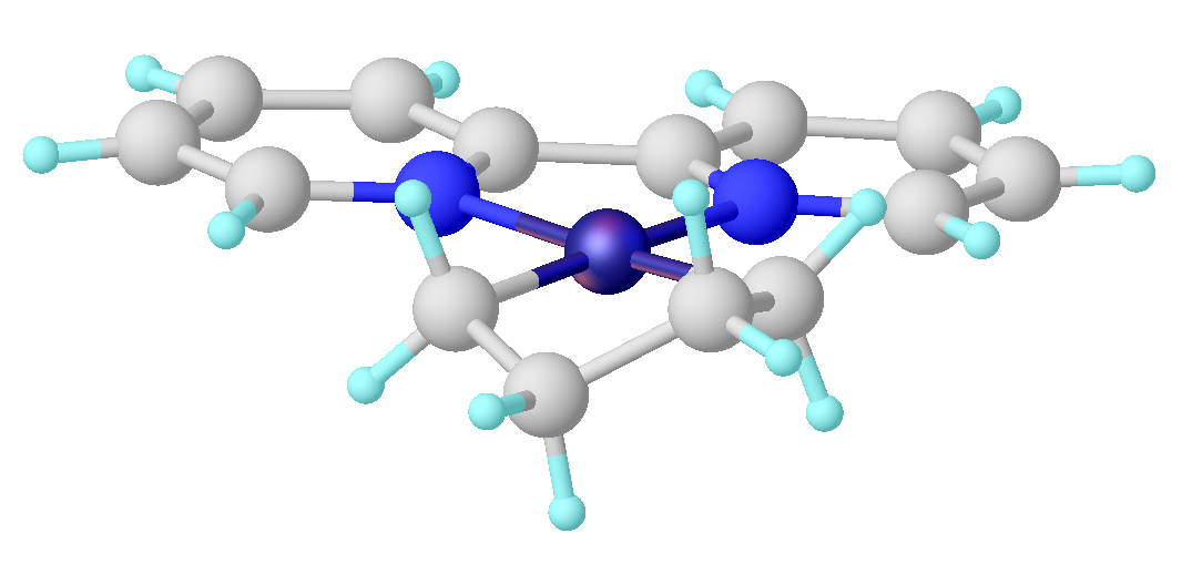 structure of Ni(bipyridine)C4H8